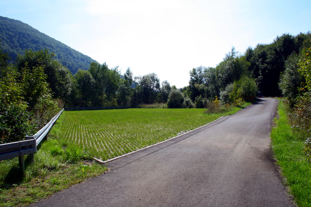 Emergency evacuation site at the northern access tunnel at Landrücken Tunnel.